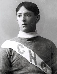 Georges Vézina, goaltender of the Montreal Canadiens of the NHA and NHL from 1910 to 1925, while with the Chicoutimi Hockey Club.